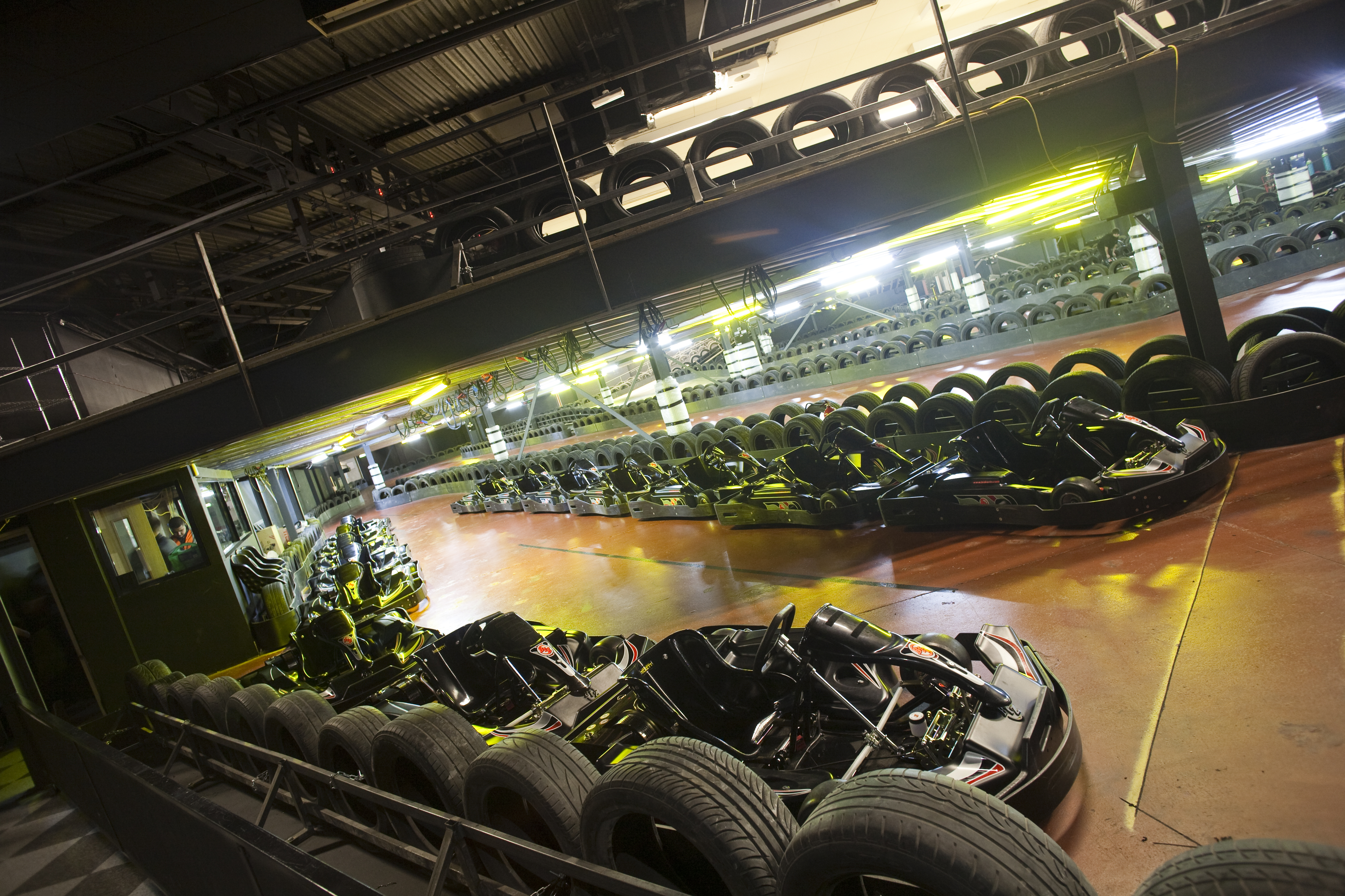 TeamSport TowerBridge track